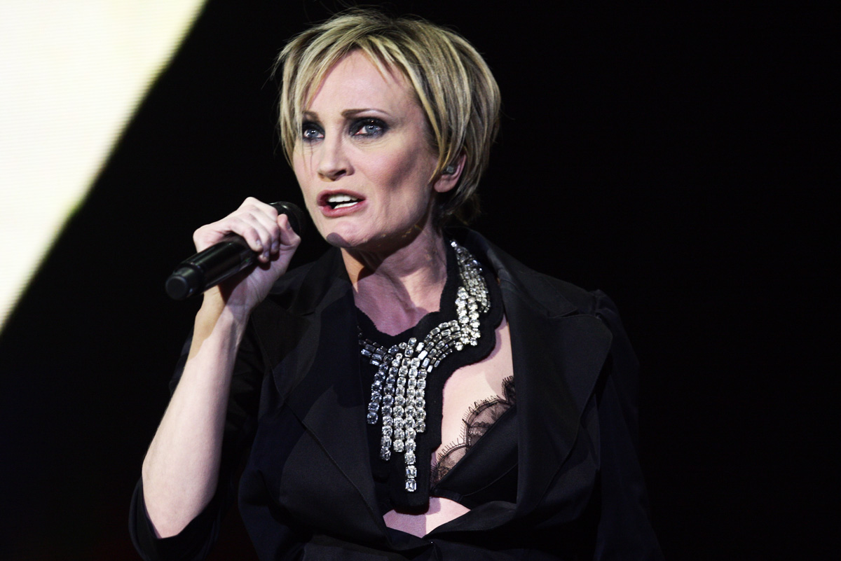 Patricia Kaas, Vilnius, Lithuania. 2009-04-24